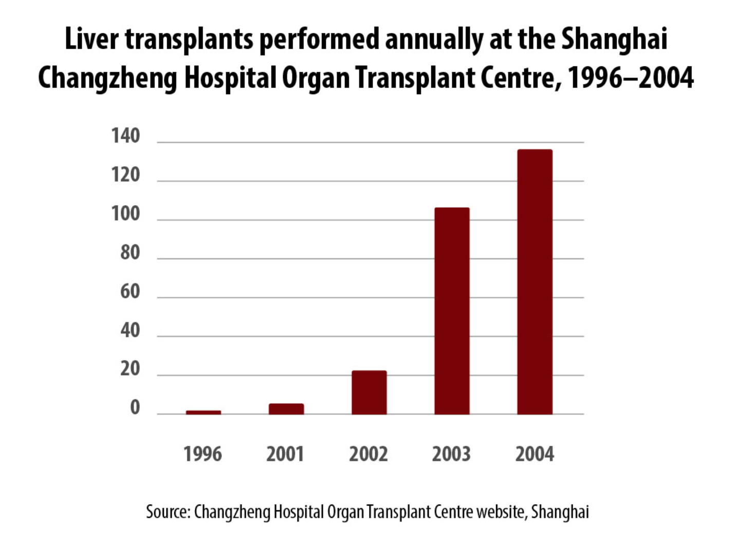 This chart shows the increase in annual liver transplants performed at the Shanghai Changzheng Hospital Organ Transplant Centre from 1996 to 2004. Source: Changzheng Hospital Organ Transplant Centre website, Shanghai